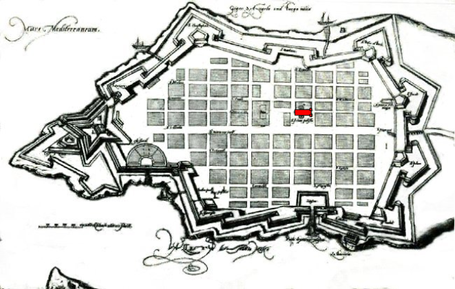 An old map of La Valetta with St. john's co-cathedral